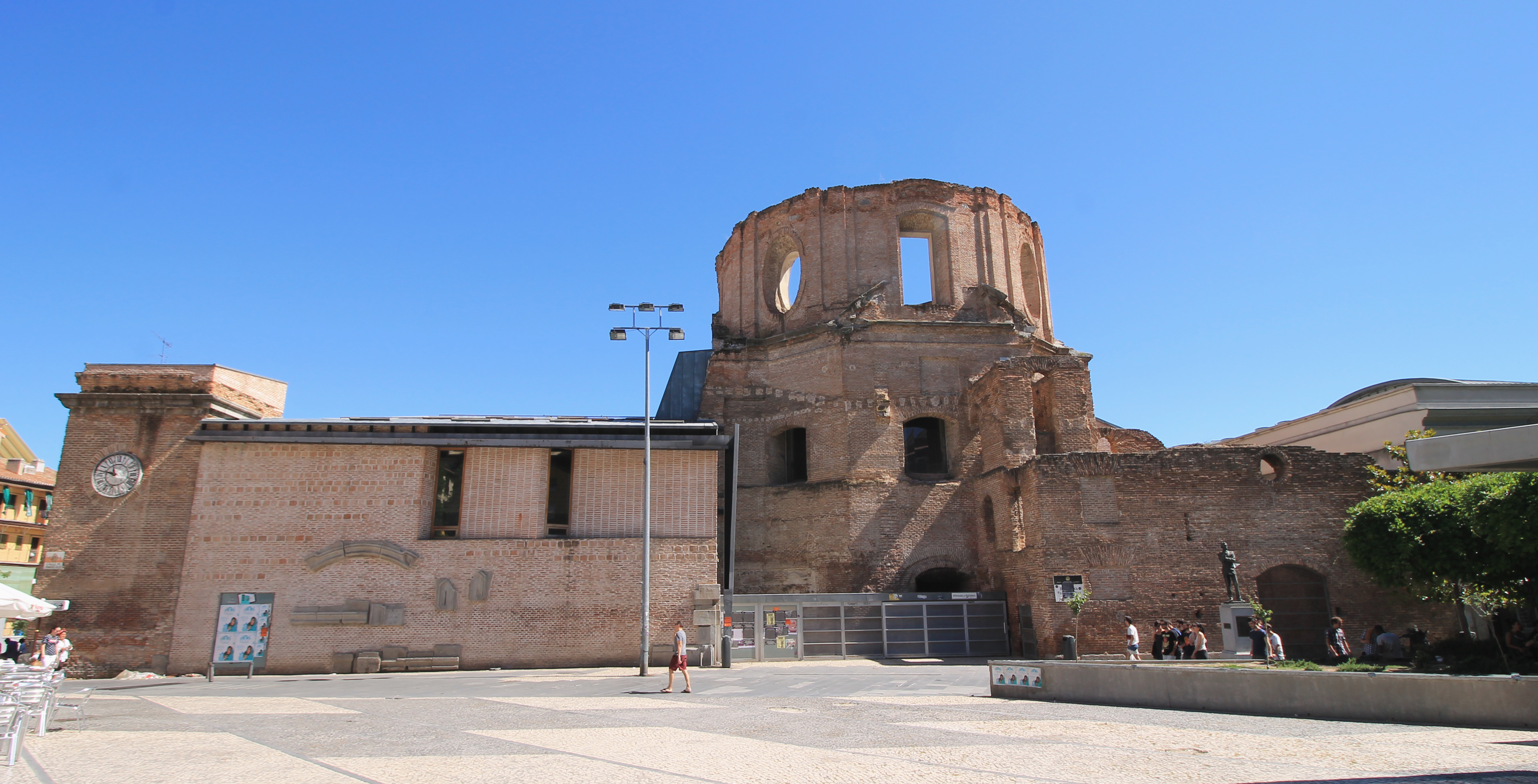 North-west façade of Escuelas Pías de San Fernando (a former school) in Madrid (Spain).